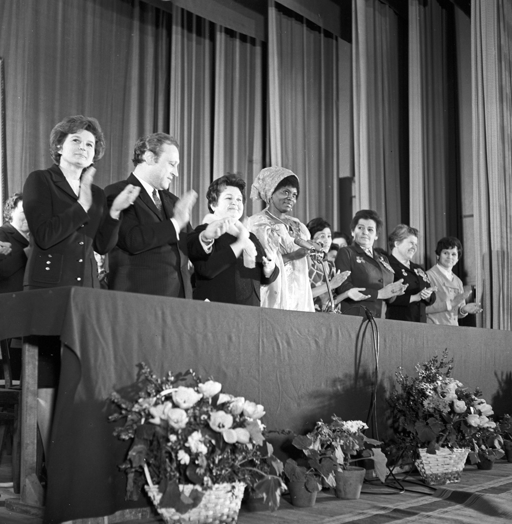 “March 8 celebration at Patrice Lumumba University”. The celebration of the March 8 International Women's Day on March 8 at the Patrice Lumumba People's Friendship University. Chairman of the Committee of Soviet Women, cosmonaut Valentina Tereshkova (far left), Wilhelmina Scott Boyle, a third year history and philology student from Sierra Leone (centre).